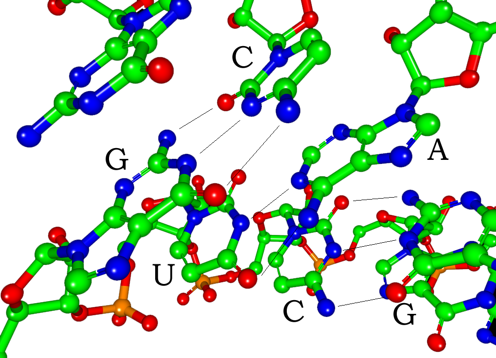 Structure showing the basepairing of 5'-GUC-3' to 3'-CAG-5'. Hydrogen atoms are omitted. This is a section of the structure of a 16 nucleotide siRNA bound to a Piwi protein, captured by X-ray crystallography. Carbon atoms are in green, oxygen in red, nitrogen in blue and phosphorus in orange.A = adenine;C = cytosine;G = guanine;U = uracil Source: The protein data bank ID 2bgg.